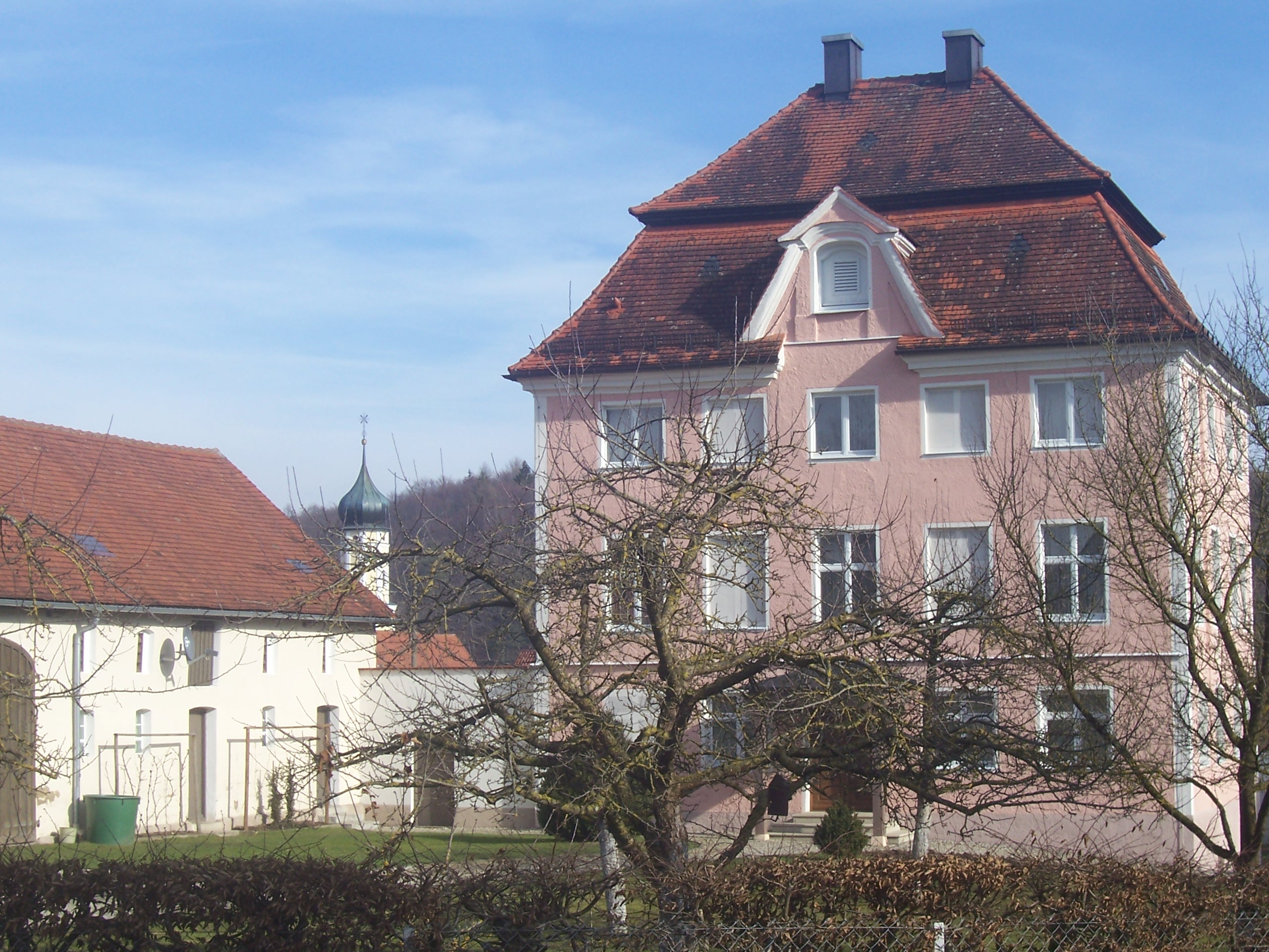 Kirche und Pfarrhof